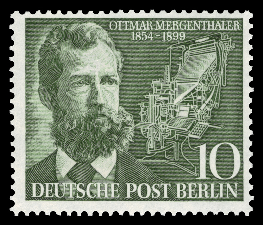 100 years of birth of Ottmar Mergenthaler (1854–1899) Graphics by Hermann Zapf Ausgabepreis: 10 Pfennig First Day of Issue / Erstausgabetag: 11. Mai 1954 Michel-Katalog-Nr: 117 (Berlin)